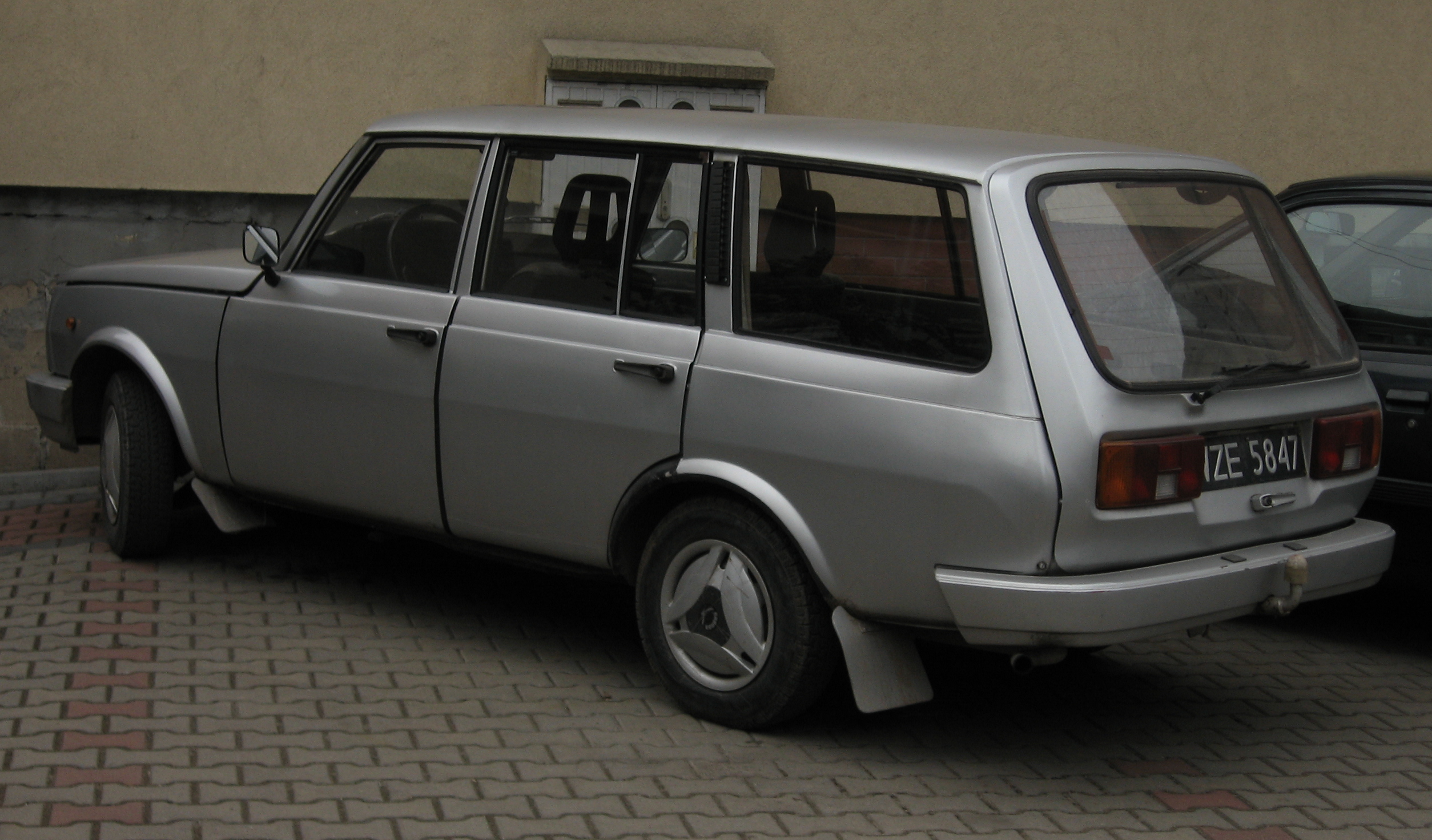 Silver Wartburg 1.3 Tourist in Kraków.